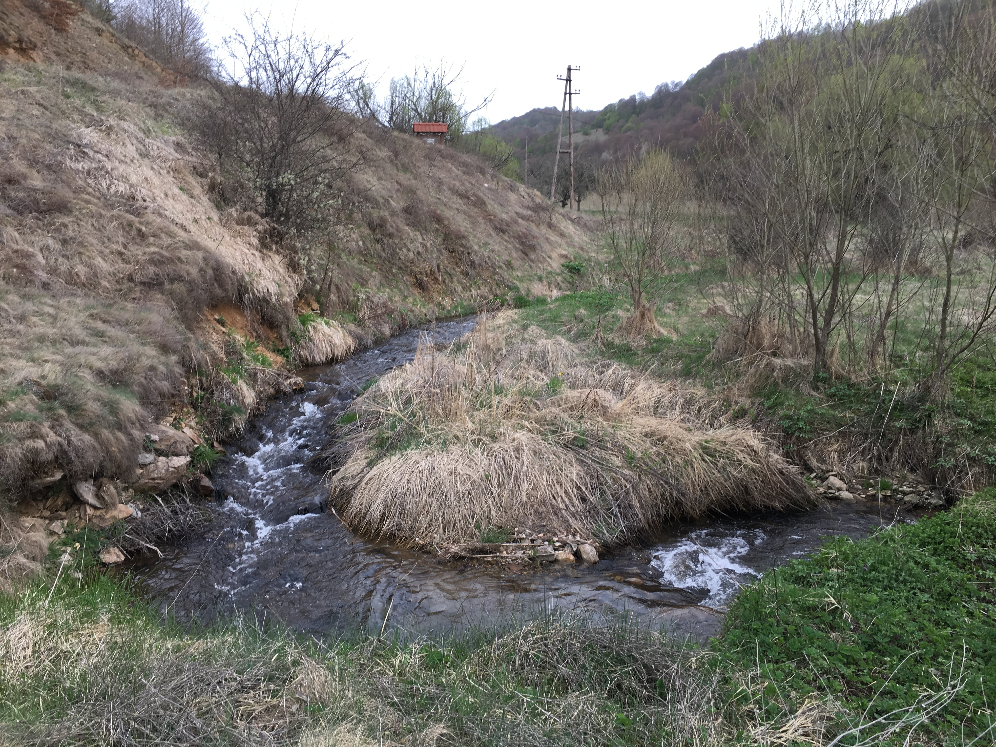 Ogut River through the eponymous village